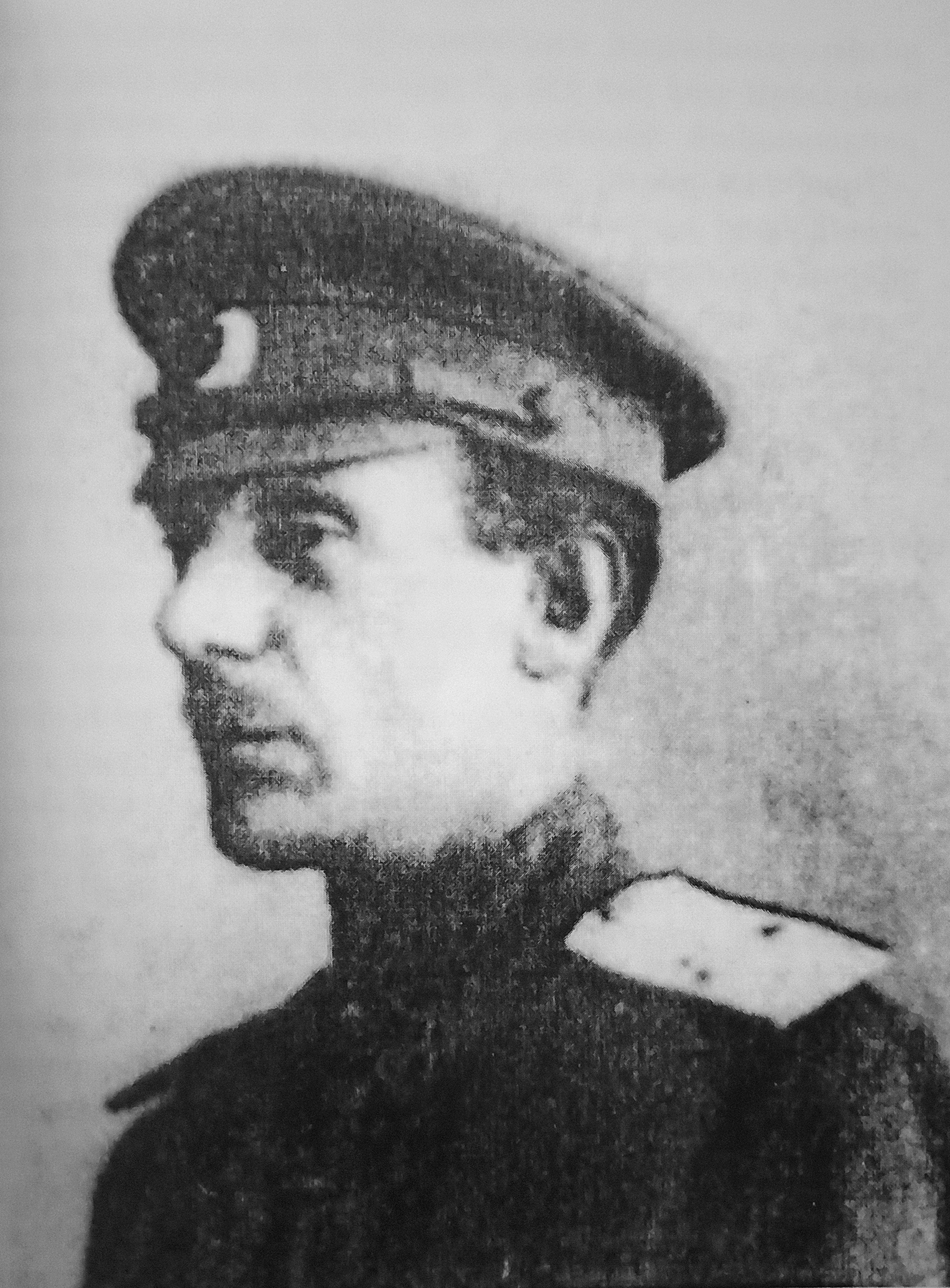 General Gabriel Ghorghanyan